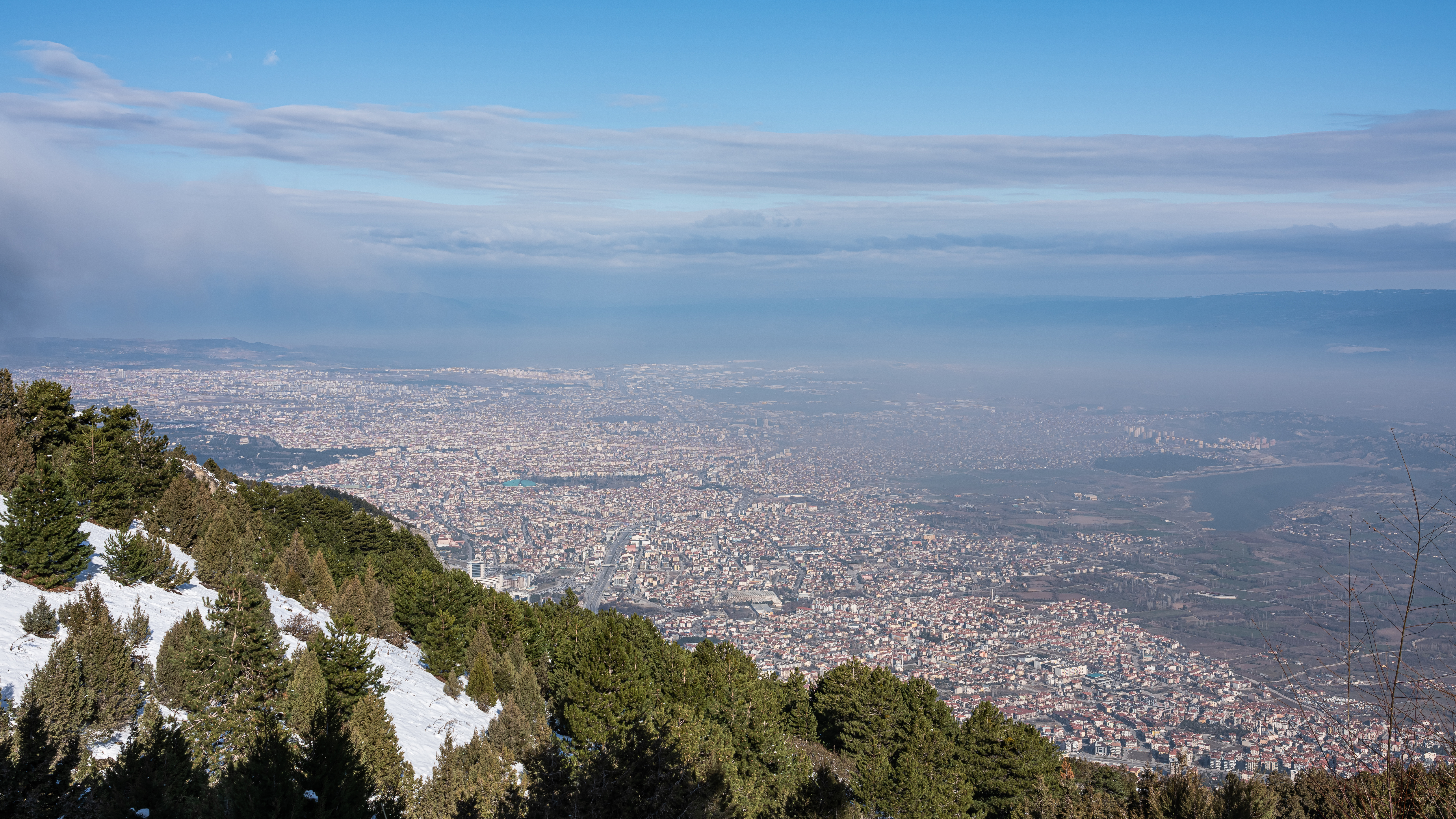 City view from the upper station of the cableway (Teleferik) in Denizli, Turkey